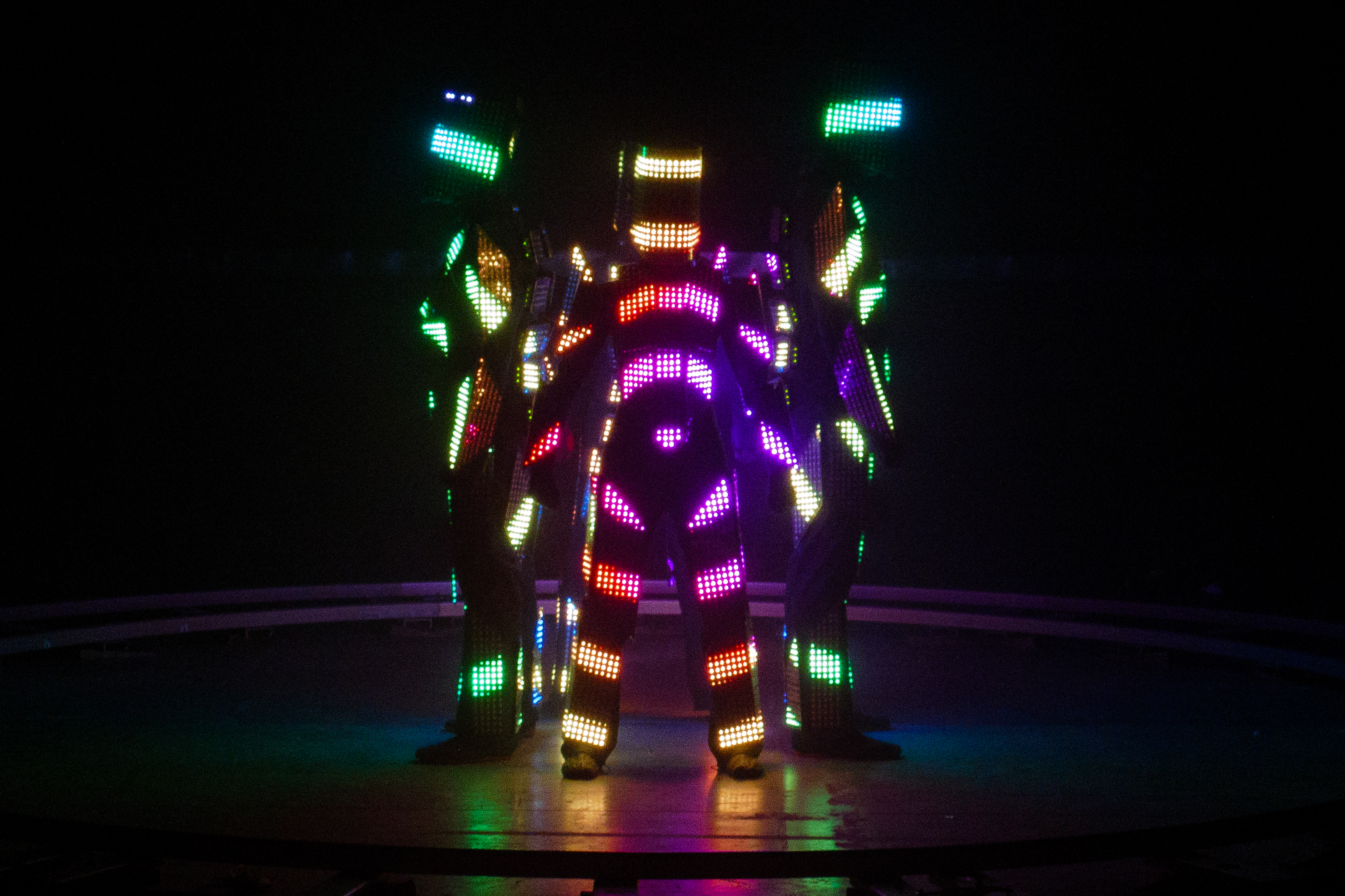 Stigma show on Juno Reactor's music video shooting in Moscow in autumn 2017 shot by Sanja Karin Music.